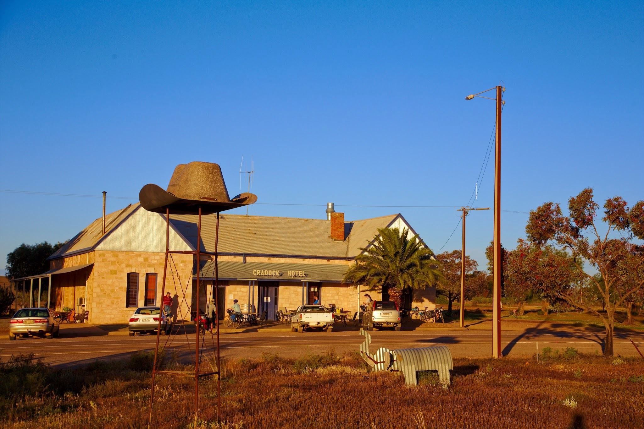 The only pub in Cradock.